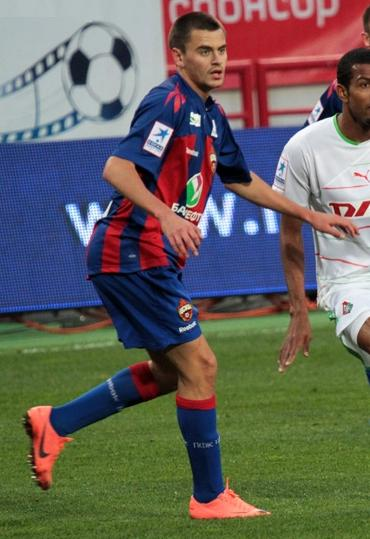 Georgi Schennikov with PFC CSKA Moscow in 2012.